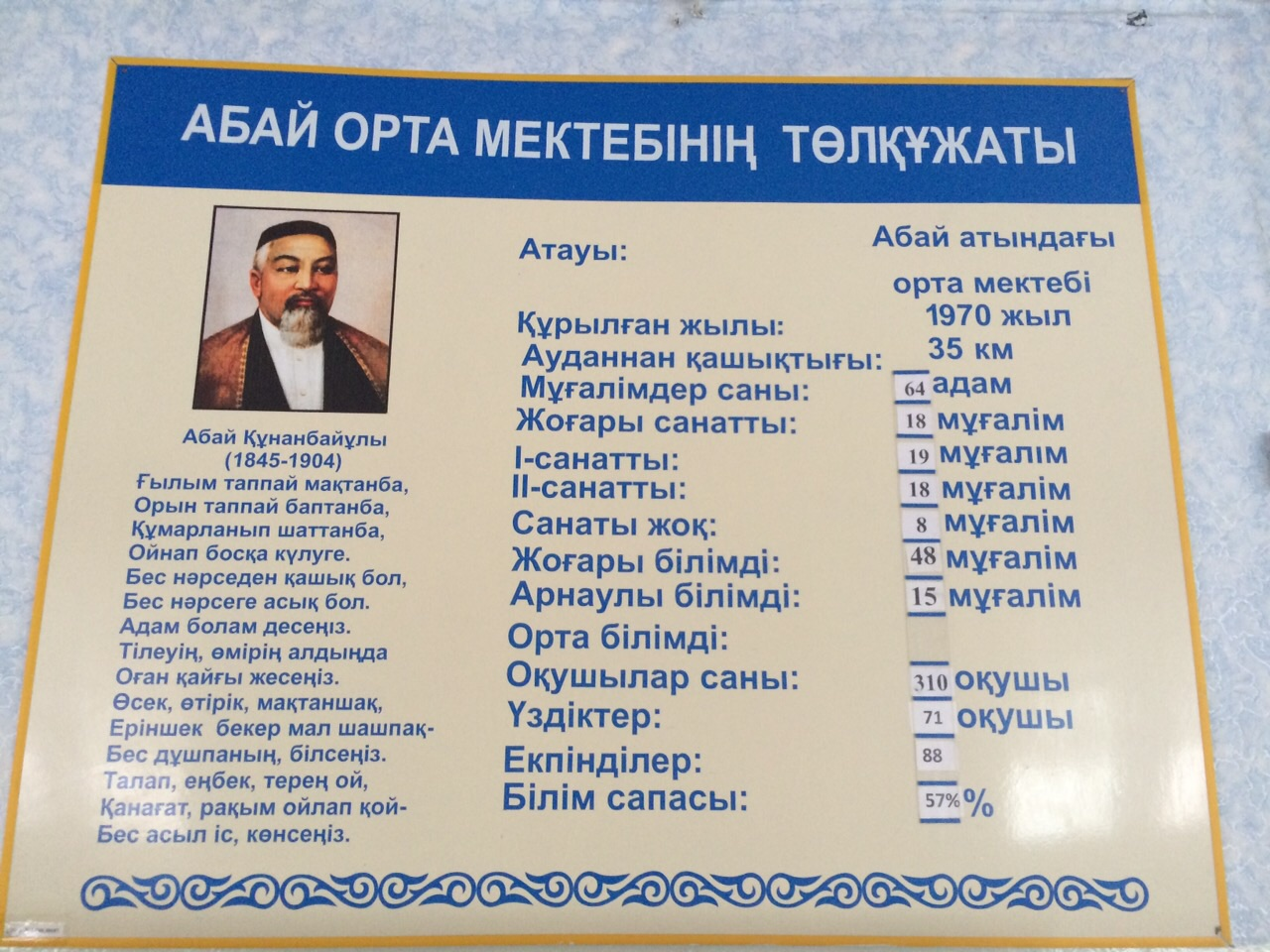 Сағашилі орта мектебі